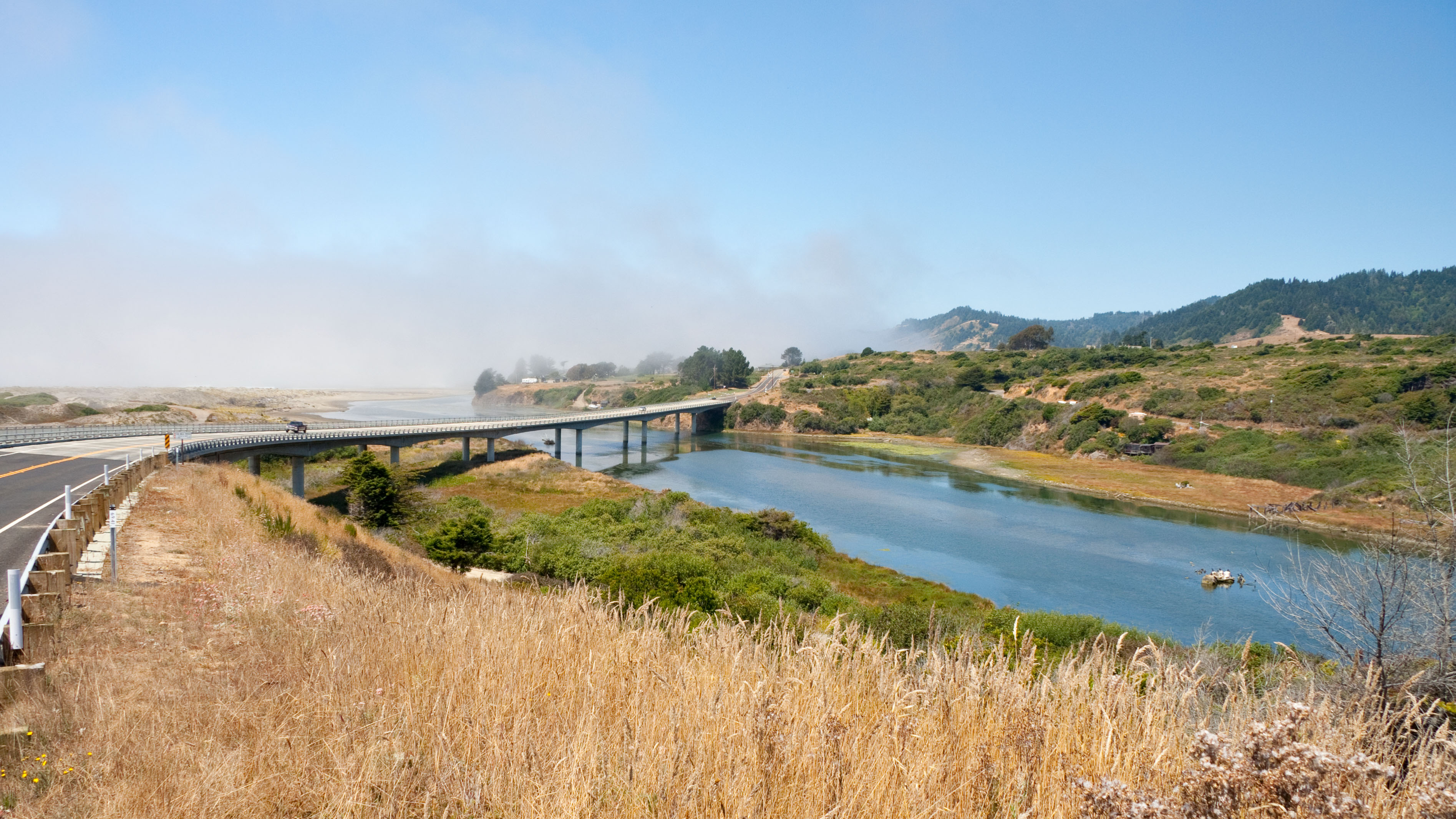 Ten Mile River (California), looking northward from California State Route 1 as it crosses near the mouth of the river.